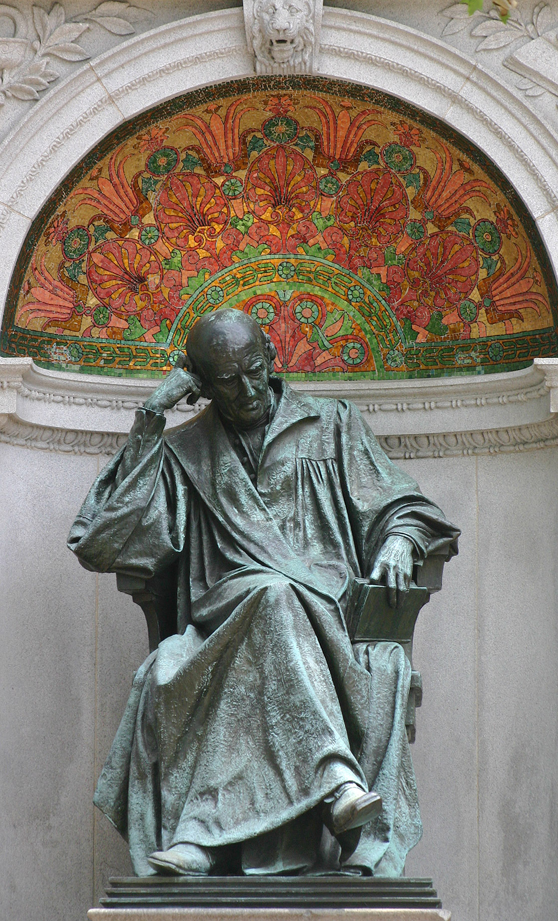 Samuel Hahnemann Memorial at Scott Circle in Washington, D.C., USA. – The life size bronze sculpture and accompanying mosaic were created by Charles Henry Niehaus (1855–1935), an Ohio native of German parentage and graduate of the Royal Academy in Munich. The memorial was dedicated on June 21, 1900. It was re-dedicated on June 21, 2000 by the American Institute of Homeopathy.